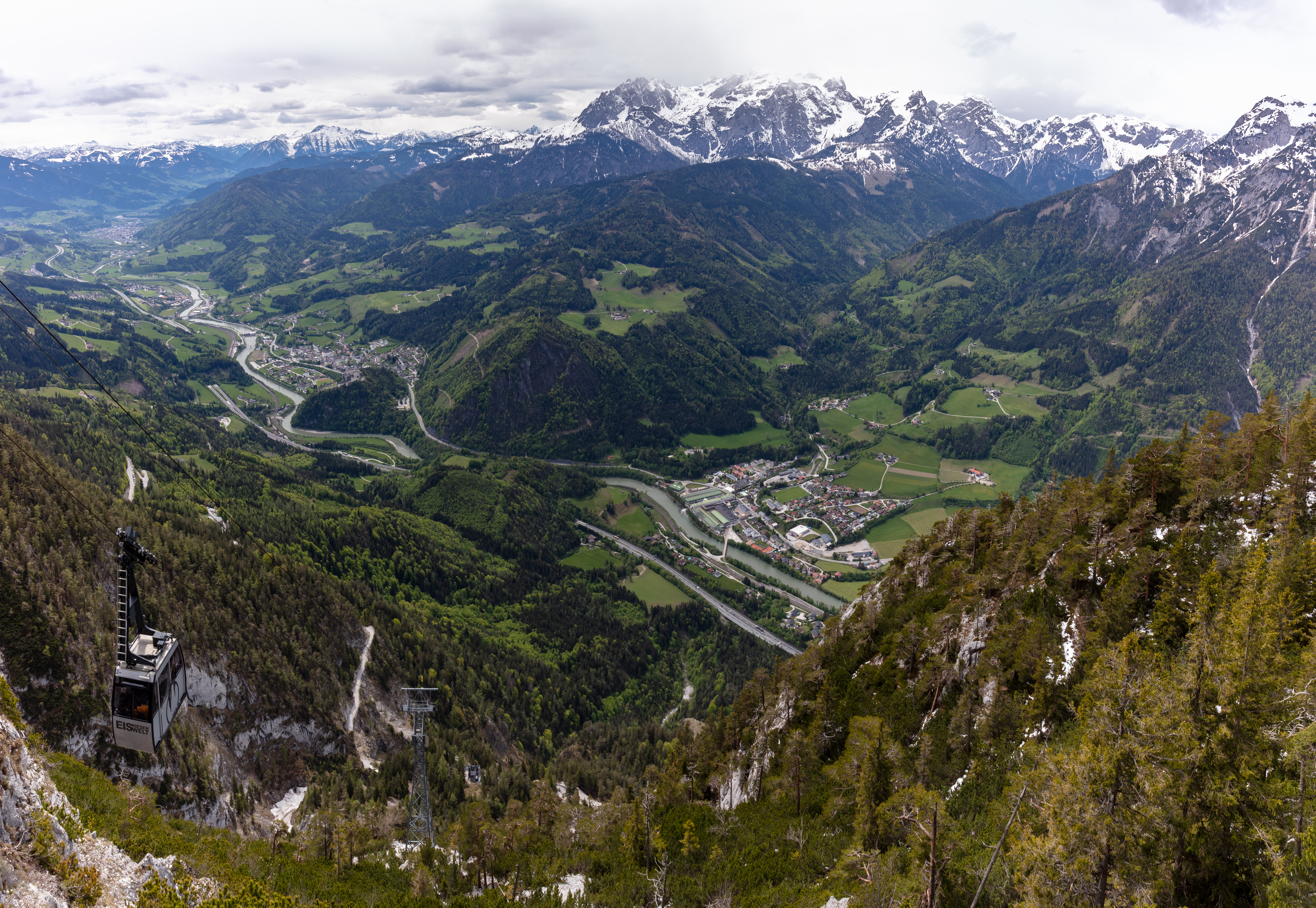 View of Werfen and Tenneck, Austria